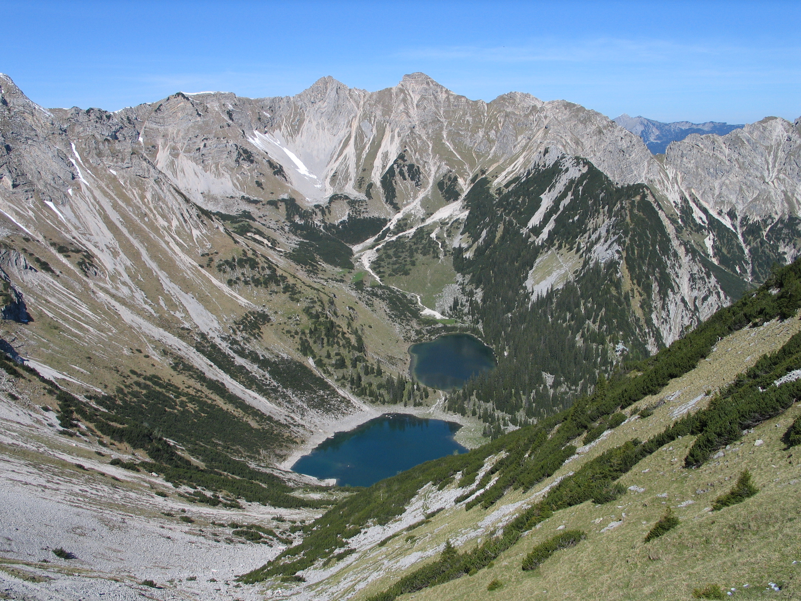 View from ascent to P. 1894 south of the Gumpenkarspitze to the west on the Soiern-Lakes (1549 m and 1556 m) and the mountain hut Soiernhaus (1611 m). Above, on the left side of the picture, is the northface of the Soiernschneid (2174 m), in the middle are Feldernkreuz (2048 m) and Schöttelkarspitze (2050 m). This peak is followed by the Gemsscharte and the southridge of the Schöttelkopf (1907 m). In the background the Krottenkopf (2086 m).